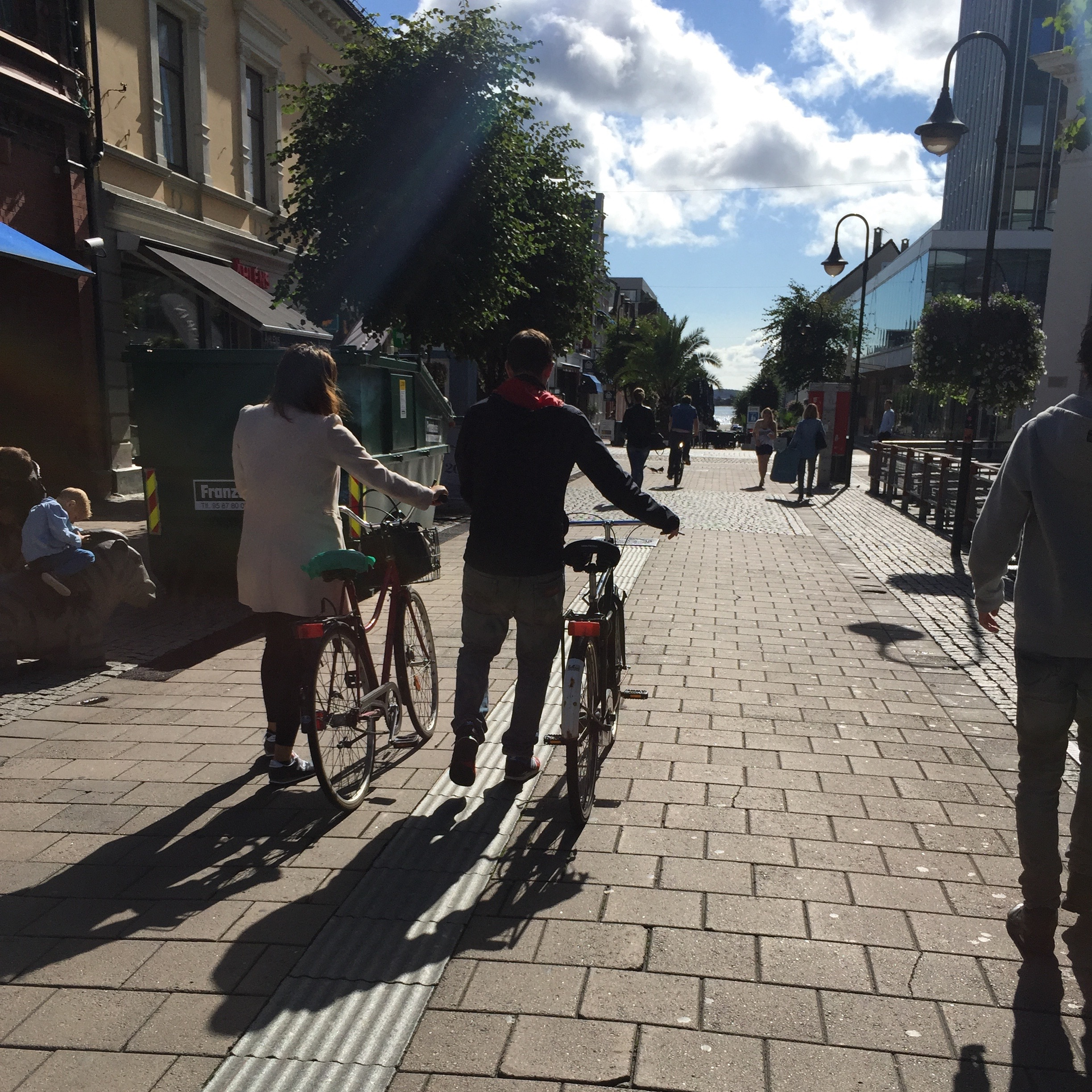 Nedre Markens gate, Kristiansand